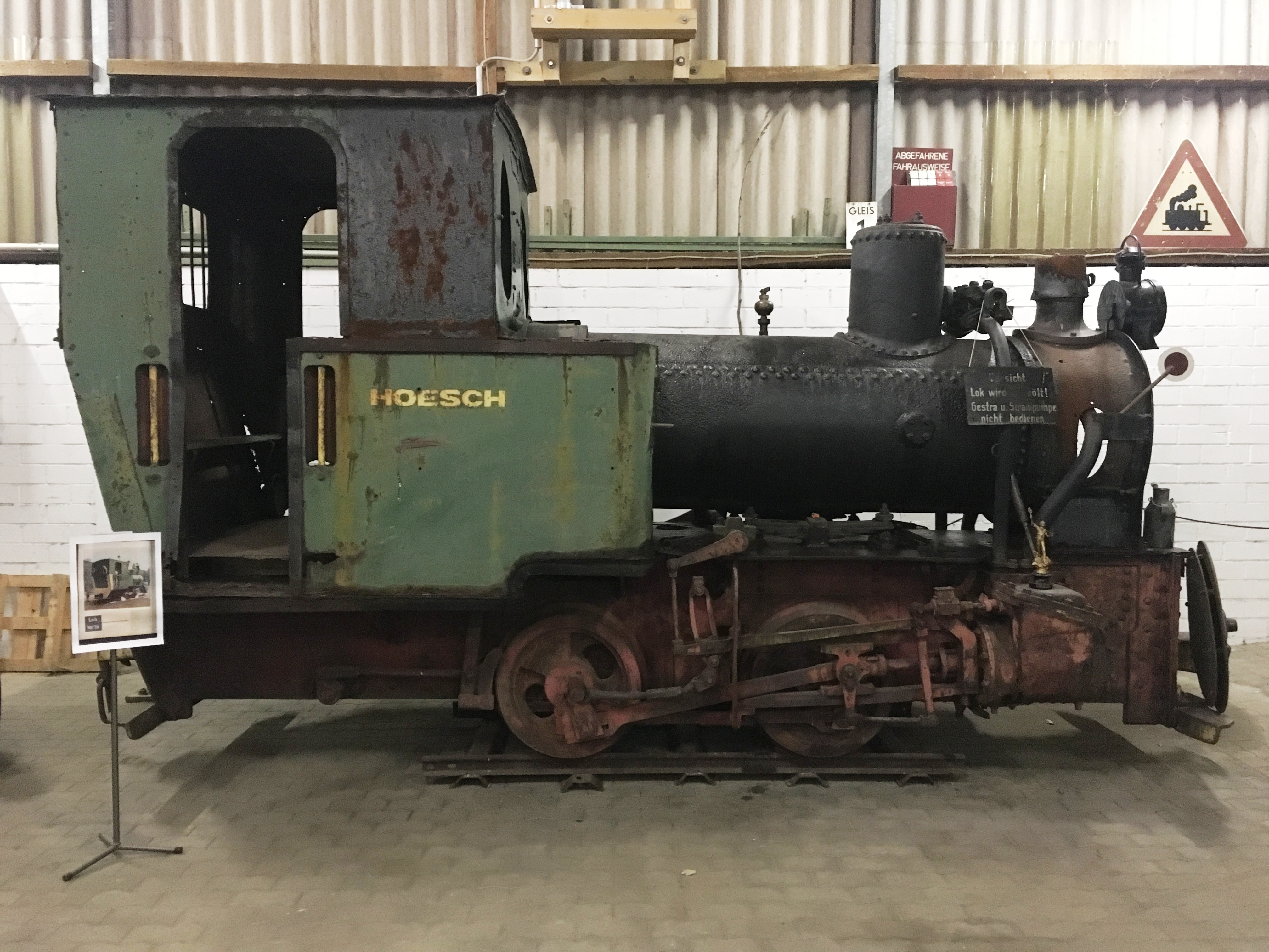 Hoesch Westfalenhütte "16" (800mm), Jung 2742/1917 (2016)